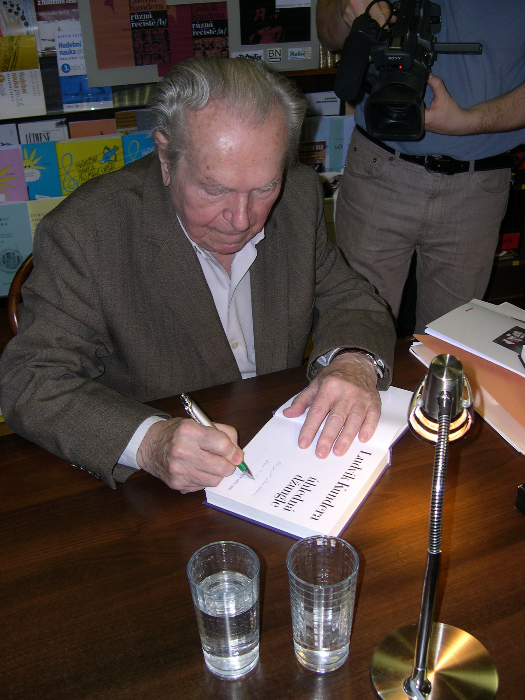 Image of deceased Czech writer Ludvík Kundera